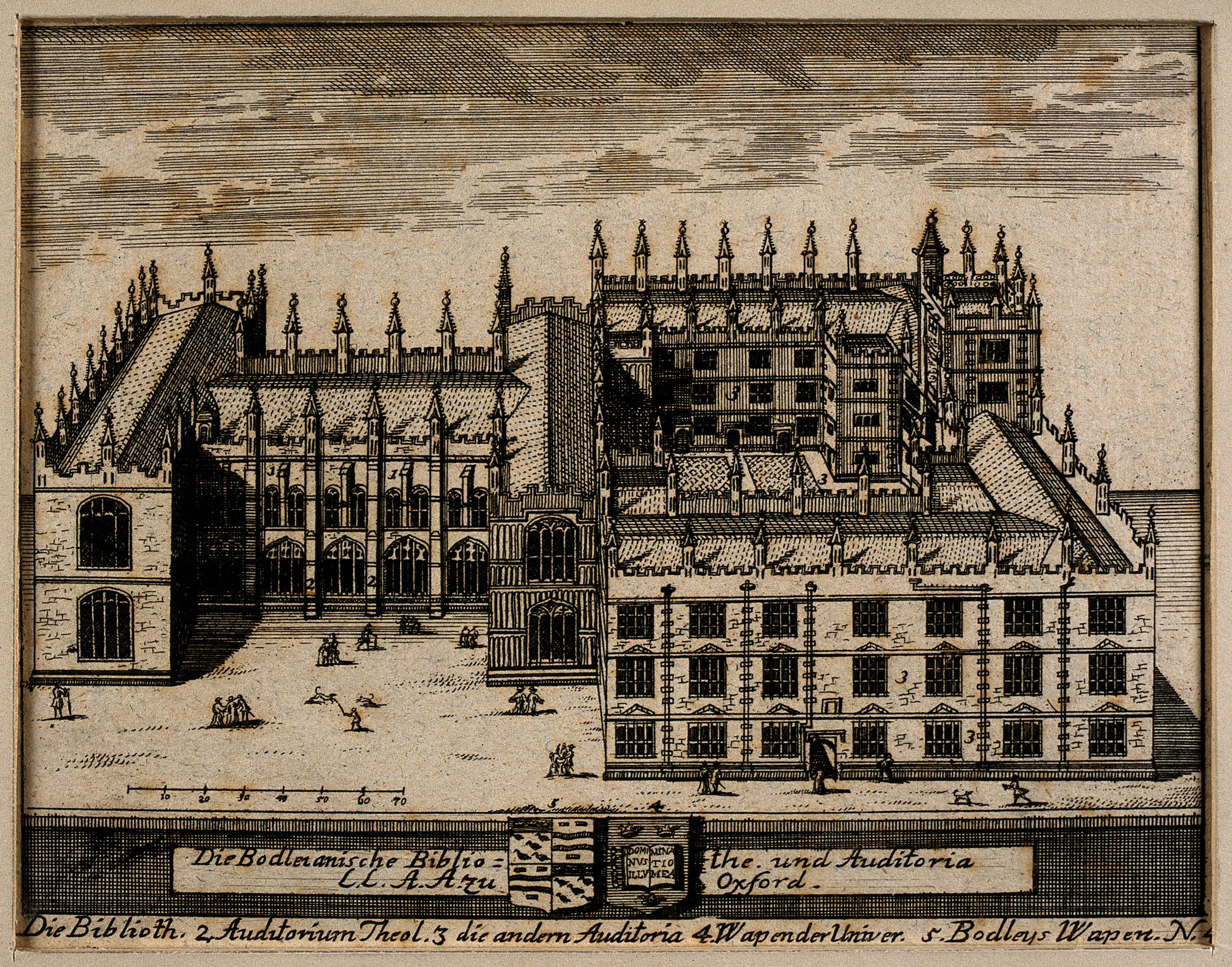 Bodleian Library, Oxford: bird's eye view with key and coat of arms. Key: 4: Wapen der Univ. (German, "Arms of the University"); 5: Bodleus Wapen ("Arms of Bodley" (family), quartering Hone of Ottery St Mary, Devon (Argent, two bars wavy between three hone-stones azure (Pole, Sir William (d.1635), Collections Towards a Description of the County of Devon, Sir John-William de la Pole (ed.), London, 1791, p.488). Sir Thomas Bodley's mother was Joan Hone, a daughter and co-heiress of Robert Hone of Ottery St Mary, Devon (Vivian, Lt.Col. J.L., (Ed.) The Visitations of the County of Devon: Comprising the Heralds' Visitations of 1531, 1564 & 1620, Exeter, 1895, p.96, pedigree of Bodley)). Line engraving. Iconographic Collections Keywords: University of Oxford; Bodleian Library (Oxford)